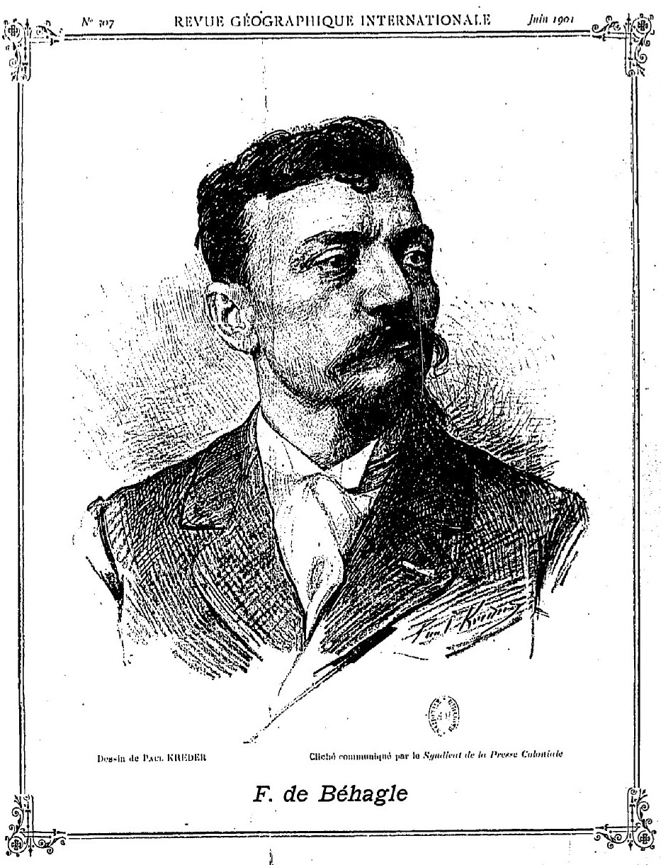 Ferdinand de Béhagle, French Explorer, plate from his 1896 Voyage commercial et scientifique au bassin du Tchad, Afrique centrale